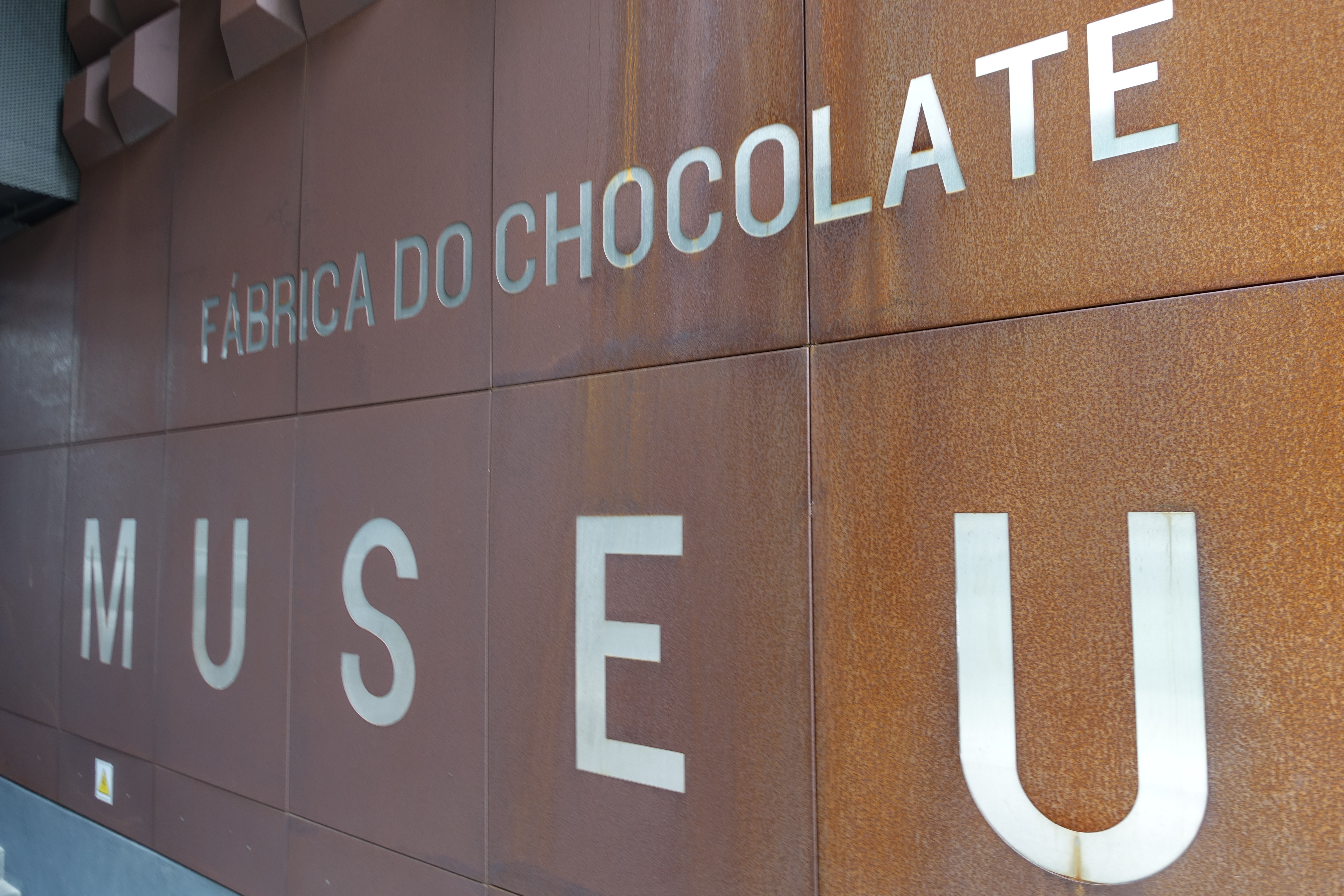 Chocolate museum in Viana do Castelo Portugal.